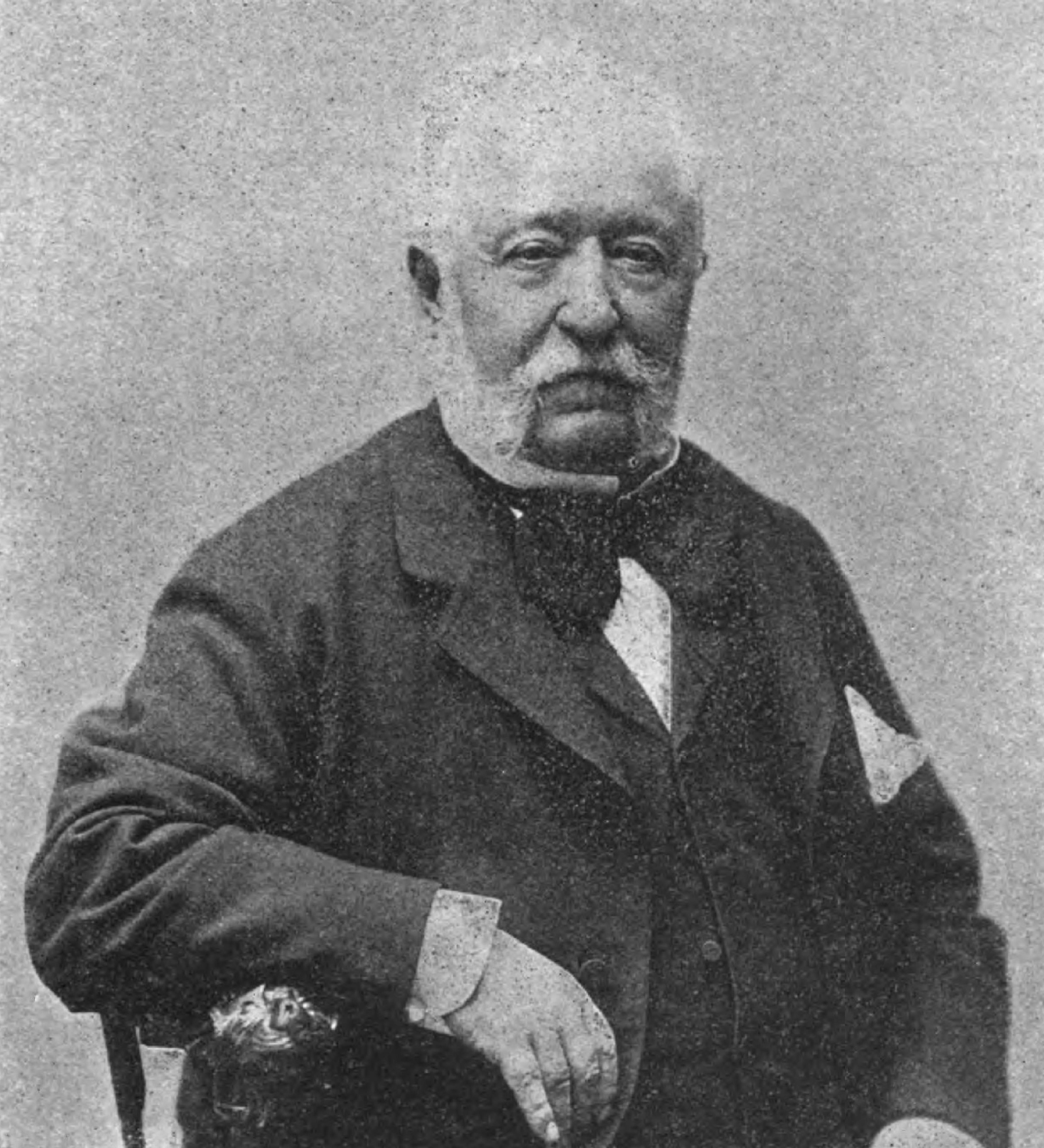 Ramón María de las Mercedes de Campoamor y Campoosorio (September 24, 1817 – February 11, 1901), known as Ramón de Campoamor, asturien realist poet and philosopher, was born at Navia (Asturias) on September 24, 1817.